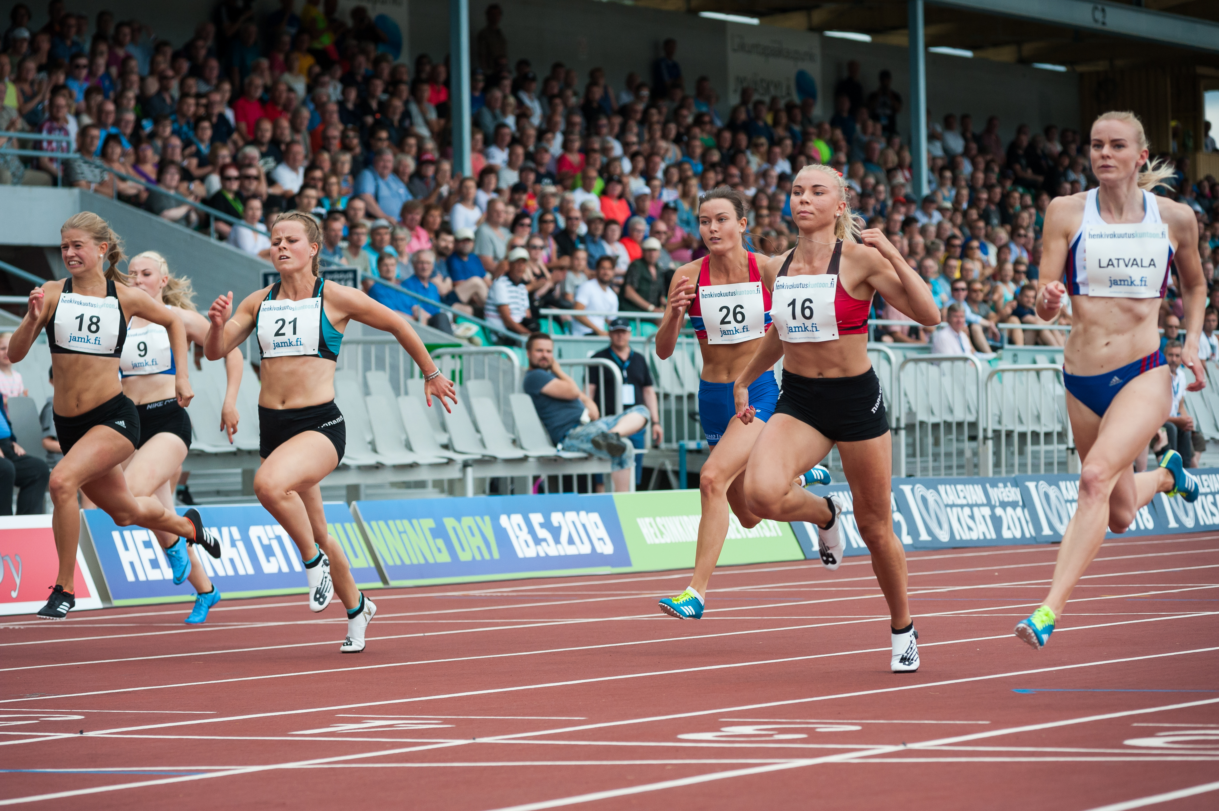 Women's 100 m competition at the 2018 Kalevan Kisat, the Finnish championships in athletics, in Jyväskylä, Finland. From left to right: Kira Kruuti, Minttu-Maaria Alanen, Sanni Mahonen, Alina Strömberg, Taika Koilahti, Hanna-Maari Latvala.